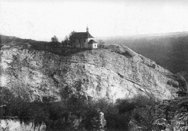 The church of St. Prokop (in Prague in Daleje Valley) was built at the top of the limestone rocks in the Baroque style by Pavel Ignác Bayer with the financial support of Adam Schwarzenberg from 1711 to 1712. Eleven years later (1723) a part of the ship was added to the church. The last construction changes of the church took place in 170 years (1893). Destruction of the rock masses in 1890 led to situation that the church was at the edge of the limestone quarry. During the Second World War, the Germans built an underground buildings in the mined quarry areas. After the end of World War II, the Czechoslovak army took over the undergroud buildings and began to use it for military purposes. The church was included in the public inaccessible military guarded area. For reasons of broken statics (and the danger of spontaneous collapse) he was demolished in 1966.